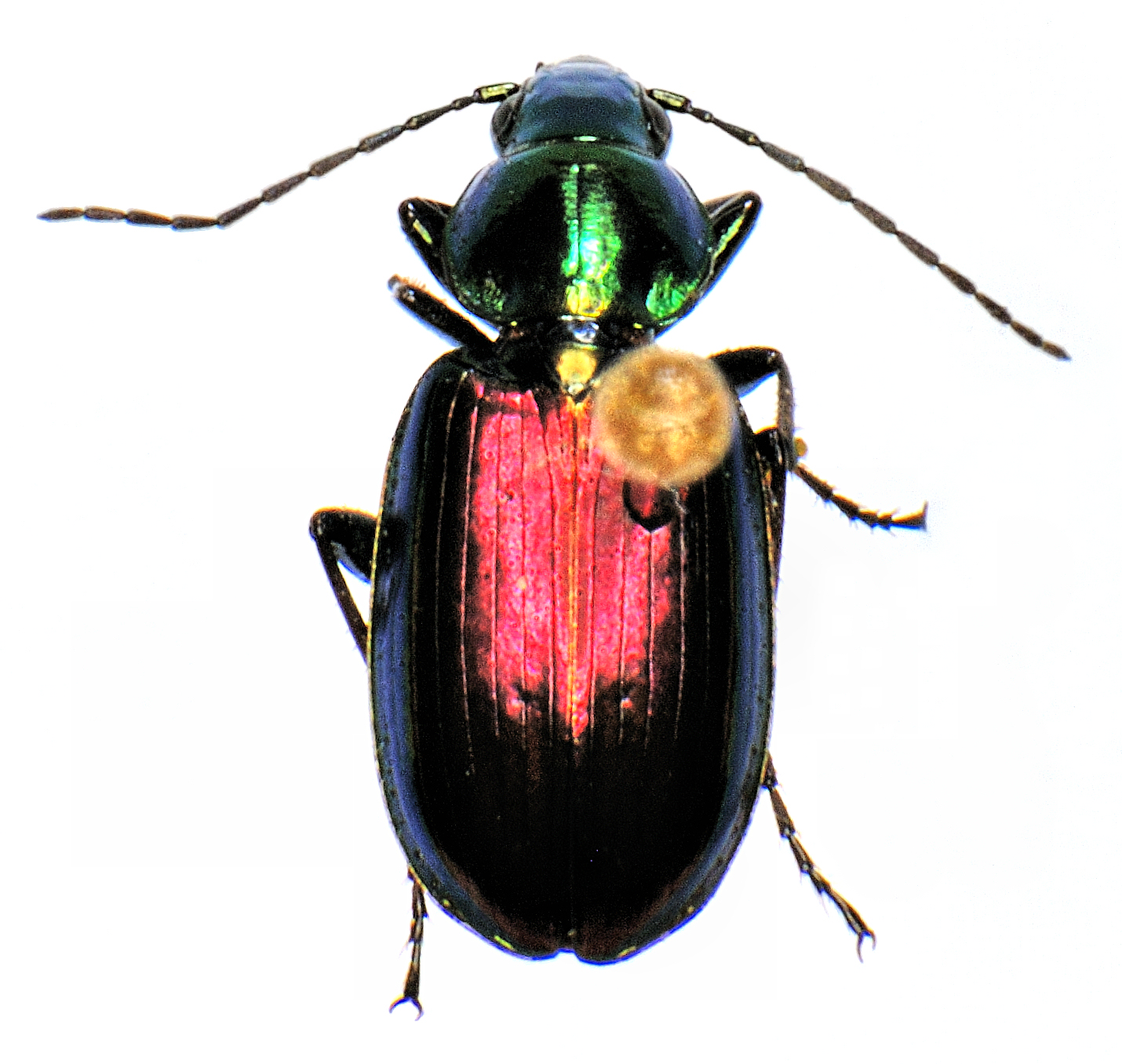 Specimen of a carabid beetle, Agonum cupripenne (Say), collected in USA: Connecticut: West Haven, bank of Oyster River S of Route I-95, 26-Apr-1995, collector M.K. Oliver, in collection of same.